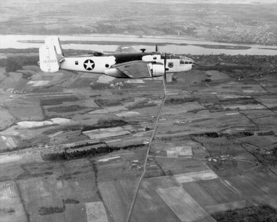 A U.S. Army Air Force North American B-25C-5 Mitchell (s/n 42-53363) from the 3rd Antisubmarine Squadron, based at Westover Field, Massachusetts.